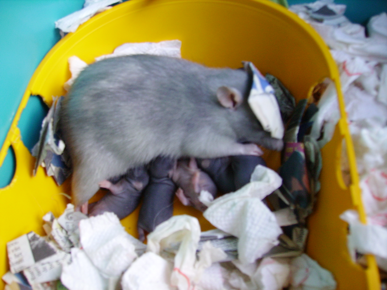 Fancy rat, nursing 13 black young. Photo: tinneke (